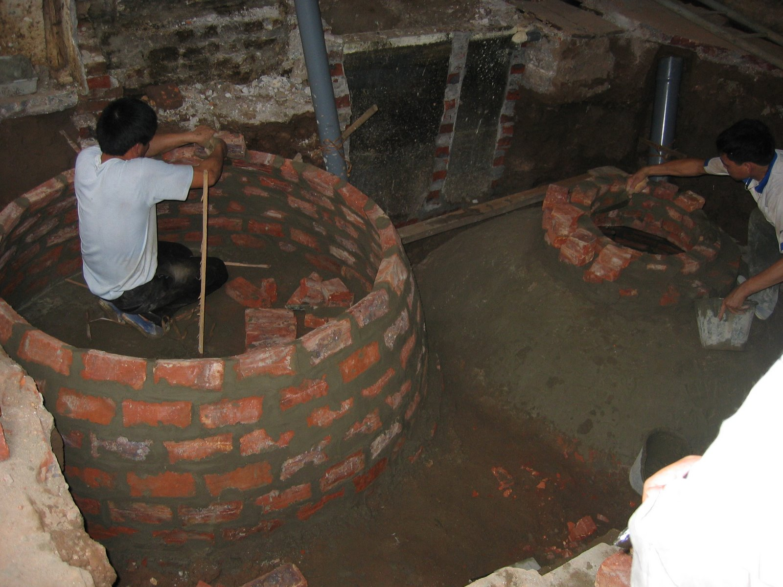 Various biogas sanitation photos from around the world